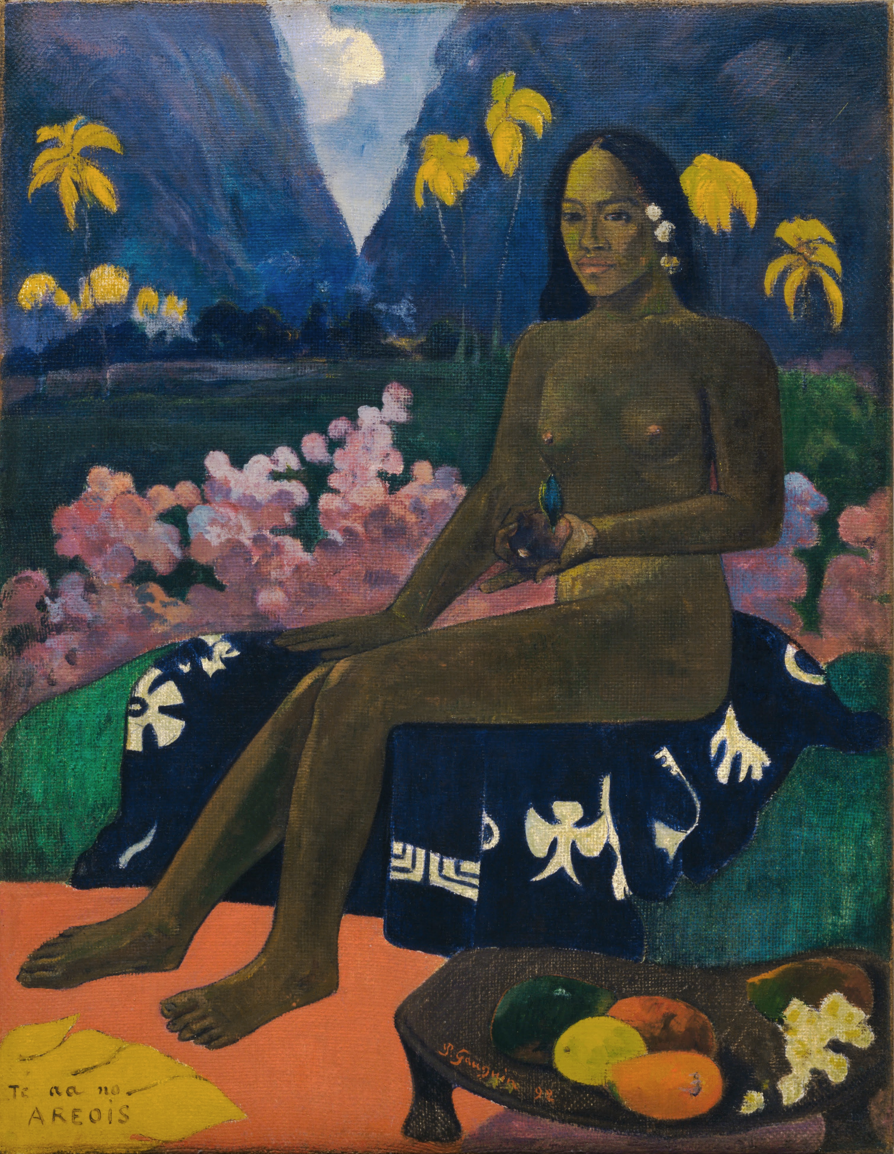 without frame